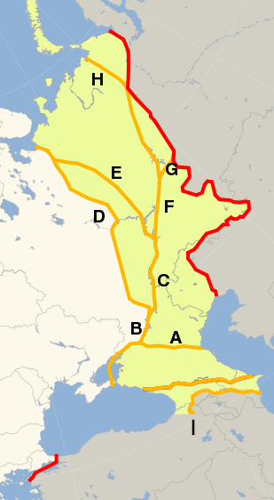 A map depicting different definitions of the Europe-Asia border Europe Asia Territory which has historically been placed in Europe and/or Asia Line A follows the Don and Manych Rivers line B follows the Don River until Volgograd (continued under D or C, depending on convention) line C follows the Volga from Volgograd until Samara, continued under E or F depending on convention line D follows the Don past Volgograd, cutting north overland to Archangelsk staying west of the Volga. line E follows the Volga until the Samara bend, and then cuts northwest to the Northern Dvina, ending at Archangelsk. This convention is used by Christoph Weigel in his Asia Vetus map, published 1719. line F leaves the Volga at the Samara bend, cutting to the lower Irtysh and the Ob River. Used by Johann Baptist Homann in his Recentissima Asiae Delineatio, published 1730. lines G and H follows the Don and the Volga (B, C, F), but then cuts across to the Urals south of Perm (G) and leaves the Ural watershed, reaching the coast of the Arctic Ocean west of the Yugorsky Peninsula (H) line I follows the Kura, Rioni, and Aras river definitions, which have been used in classical Greek and later Soviet geography. [1] [2]